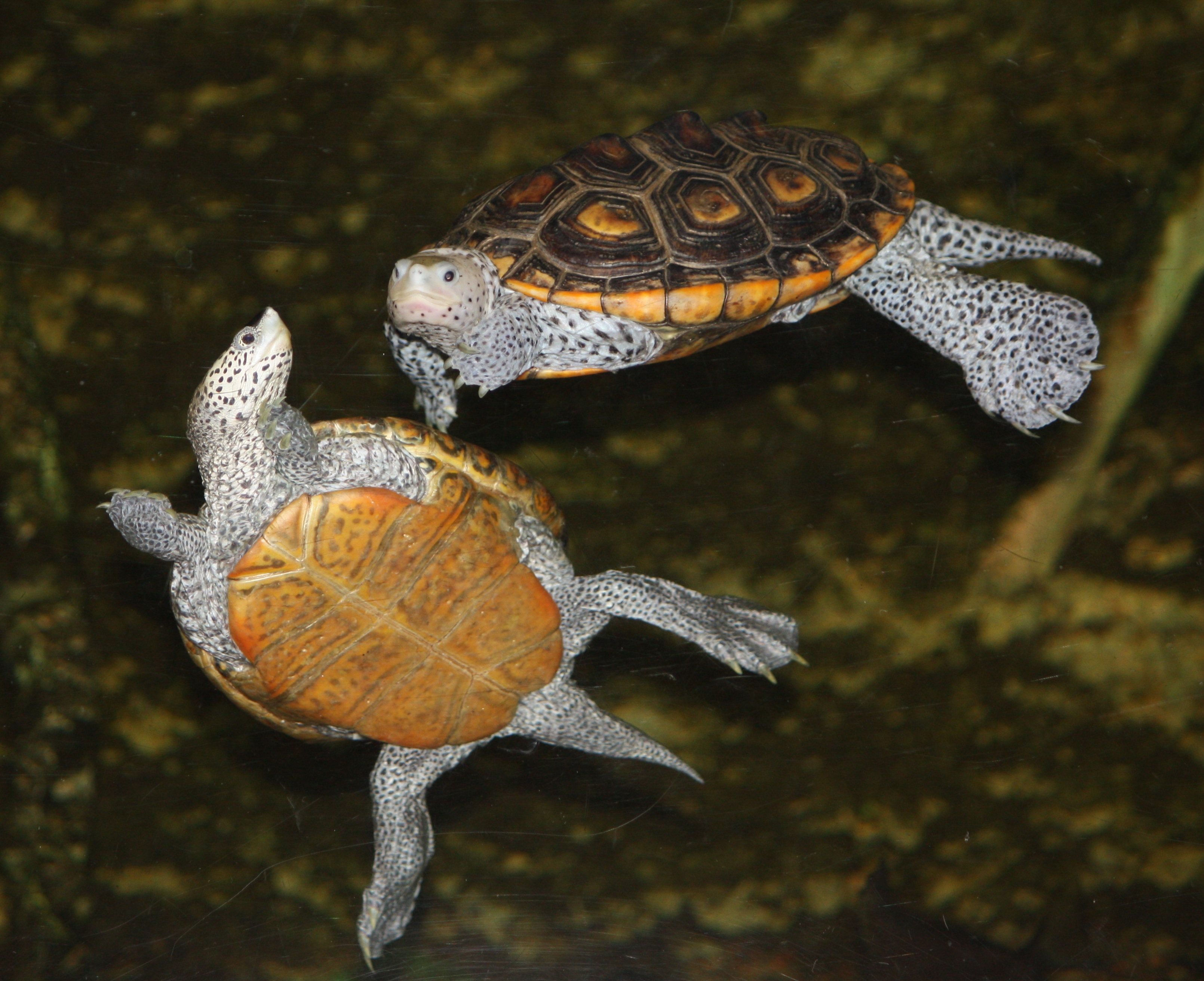 2 Diamondback Terrapins swimming at the Louisville Zoo